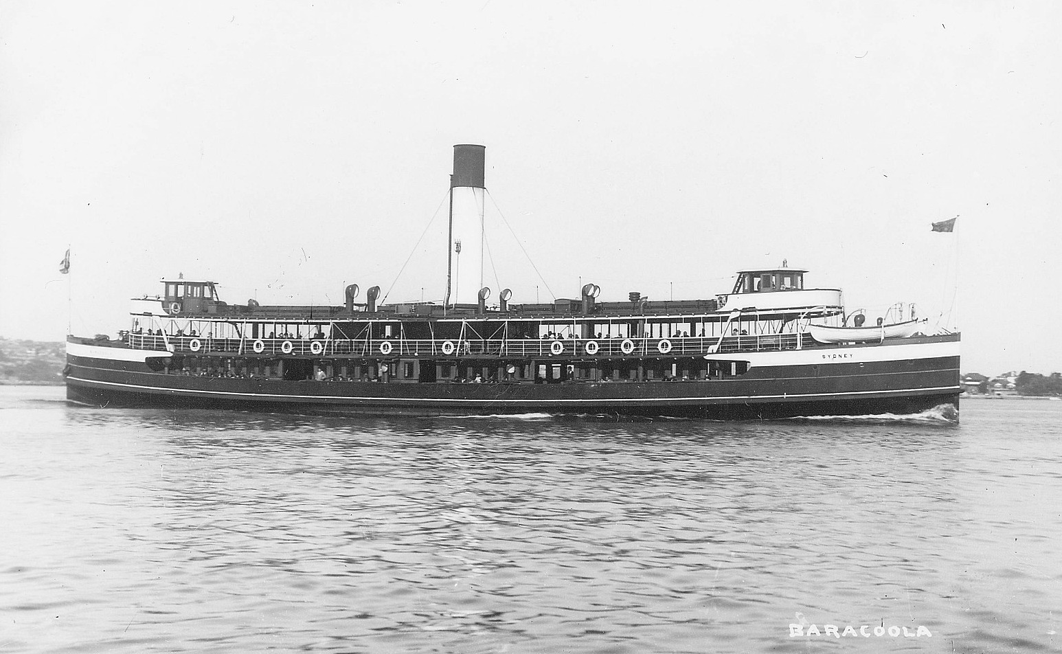 SS Baragoola publicity postcard October 1922